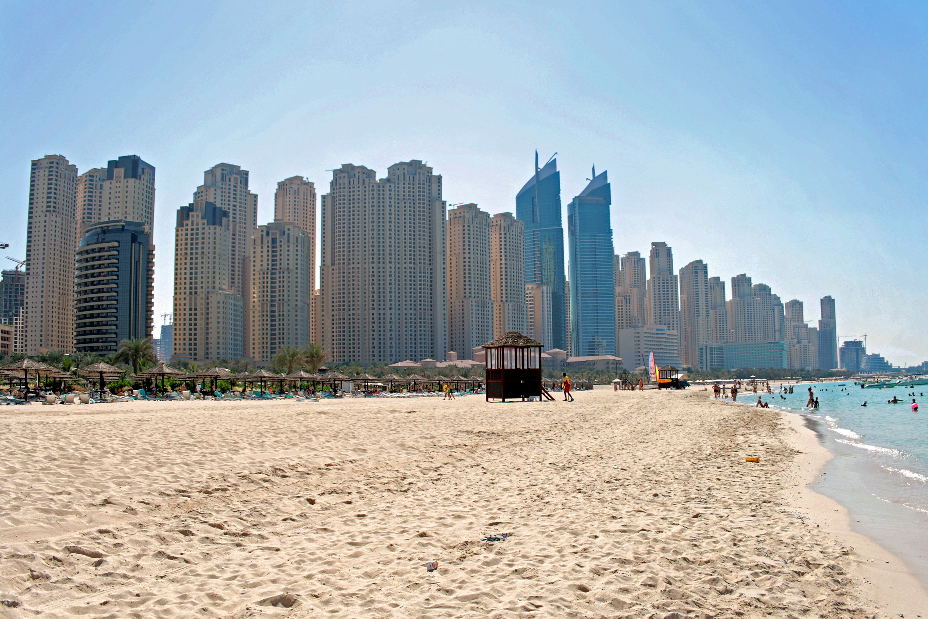 Skyline Dubai Jumeirah Beach, the background shows the skyscraper of Dubai Marina